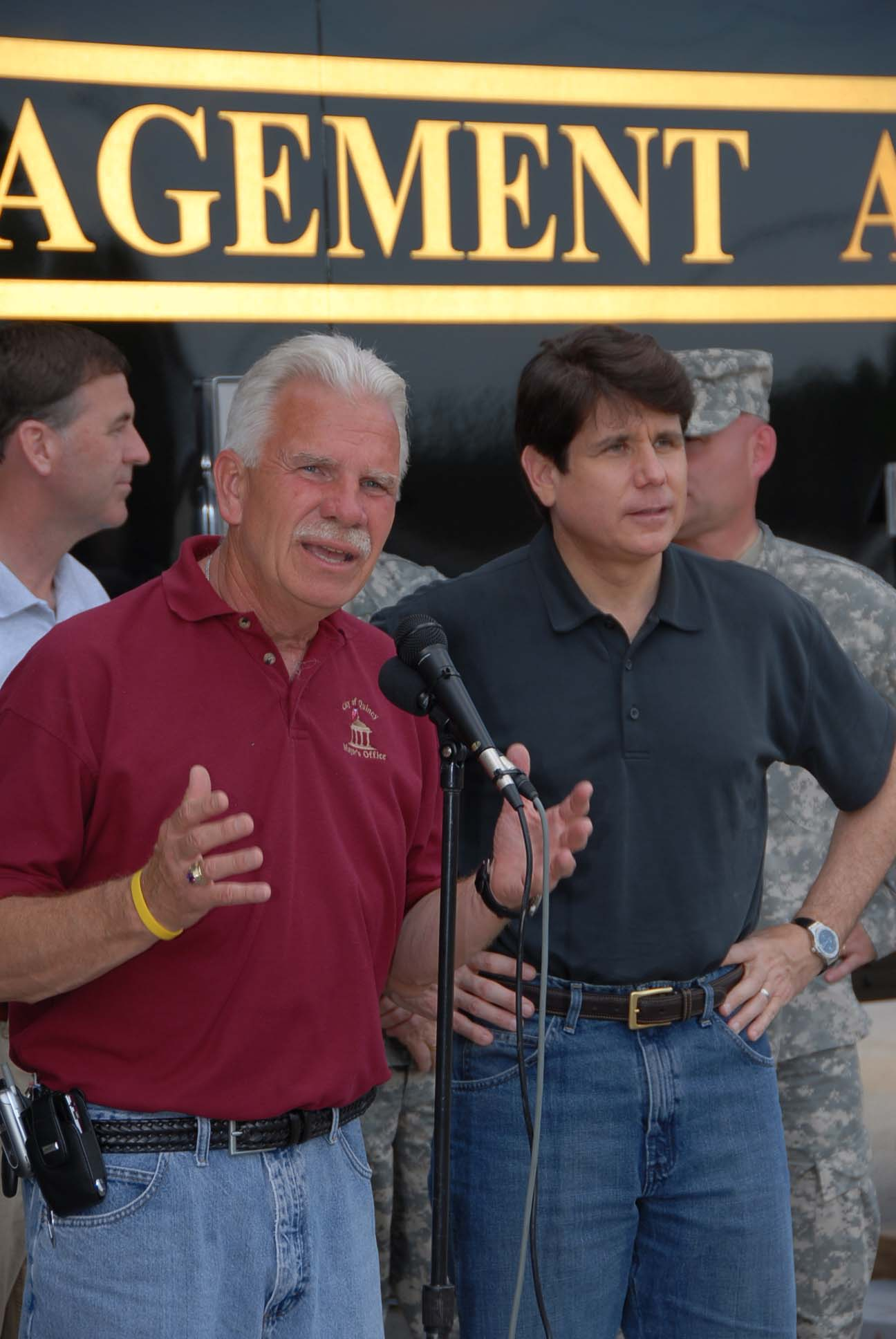 The Mayor of Quincy, Ill., John Spring, and the Governor of Illinois, Rod Blagojevich, conduct a press conference about flood relief efforts along the Mississippi River. Blagojevich was visiting the town of Quincy, Illinois to discuss the current flood crisis.